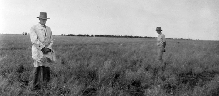 Curly Mitchell Grass (Astrebla Lappacea), Claverton, Charleville. (Two men inspecting the grass)